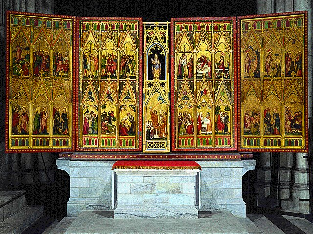 Feastday opening